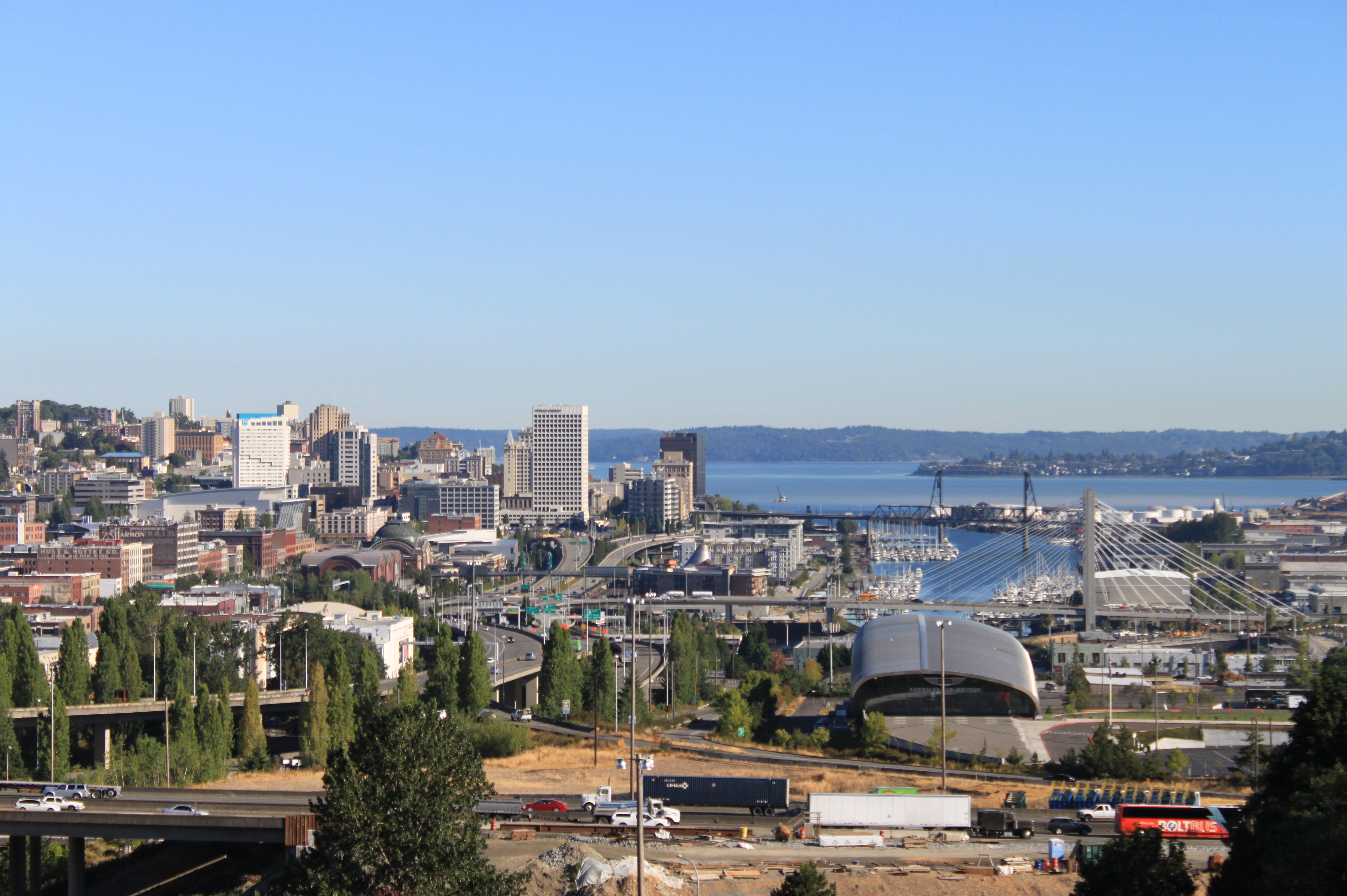 Tacoma skyline from E 34th Street